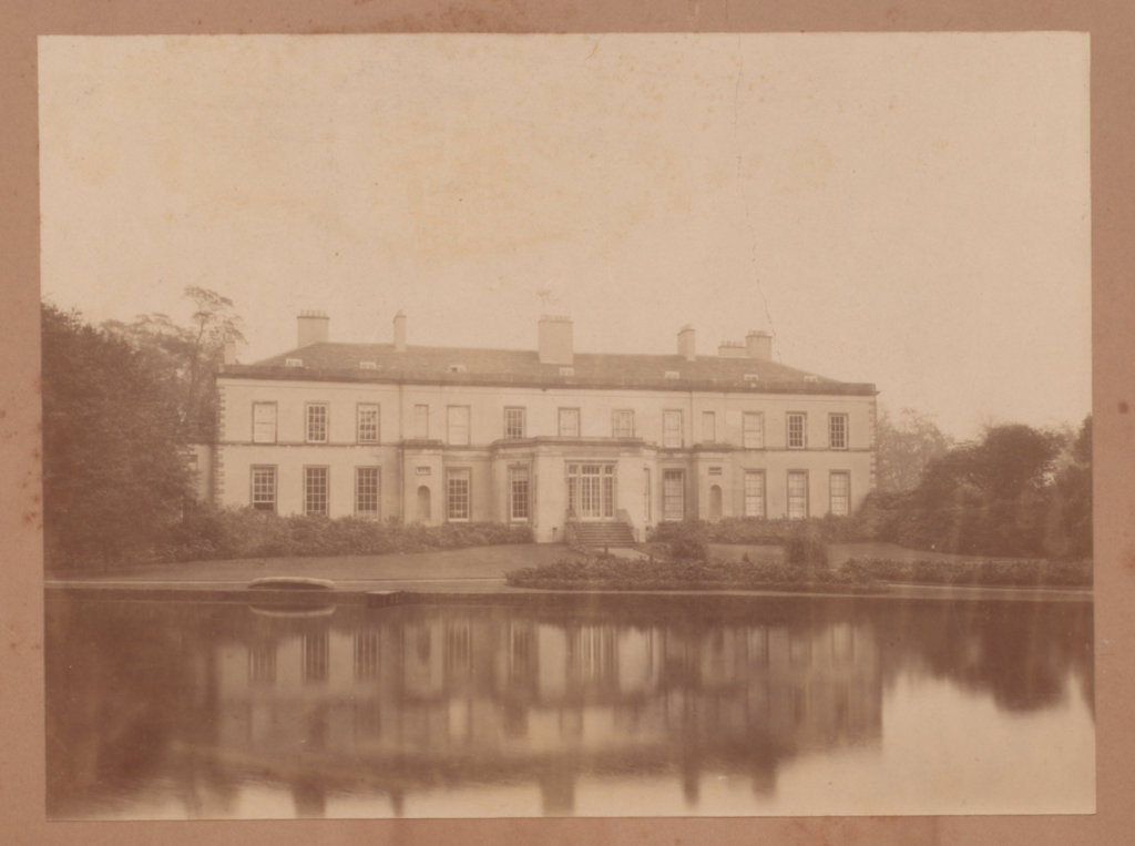 Hulton Park, early c20